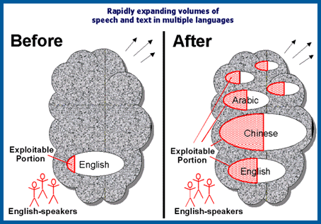 Graphic from the Information Awareness Office's website describing the goals of the Translingual Information Detection, Extraction and Summarization (TIDES) project